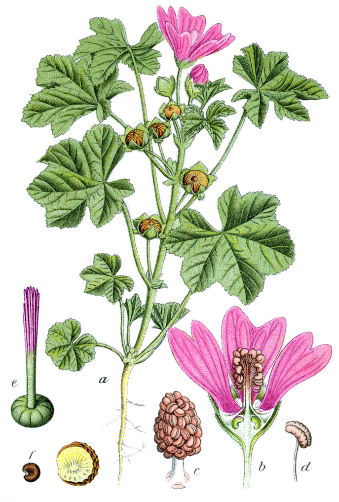 Illustration of Malva sylvestris L. Original Caption Tafel 63., Ross-Malve, Malva silvestris This is a retouched picture, which means that it has been digitally altered from its original version. Modifications: Background cleaned, rotated, cropped. Modifications made by CarolSpears. The original can be found here.